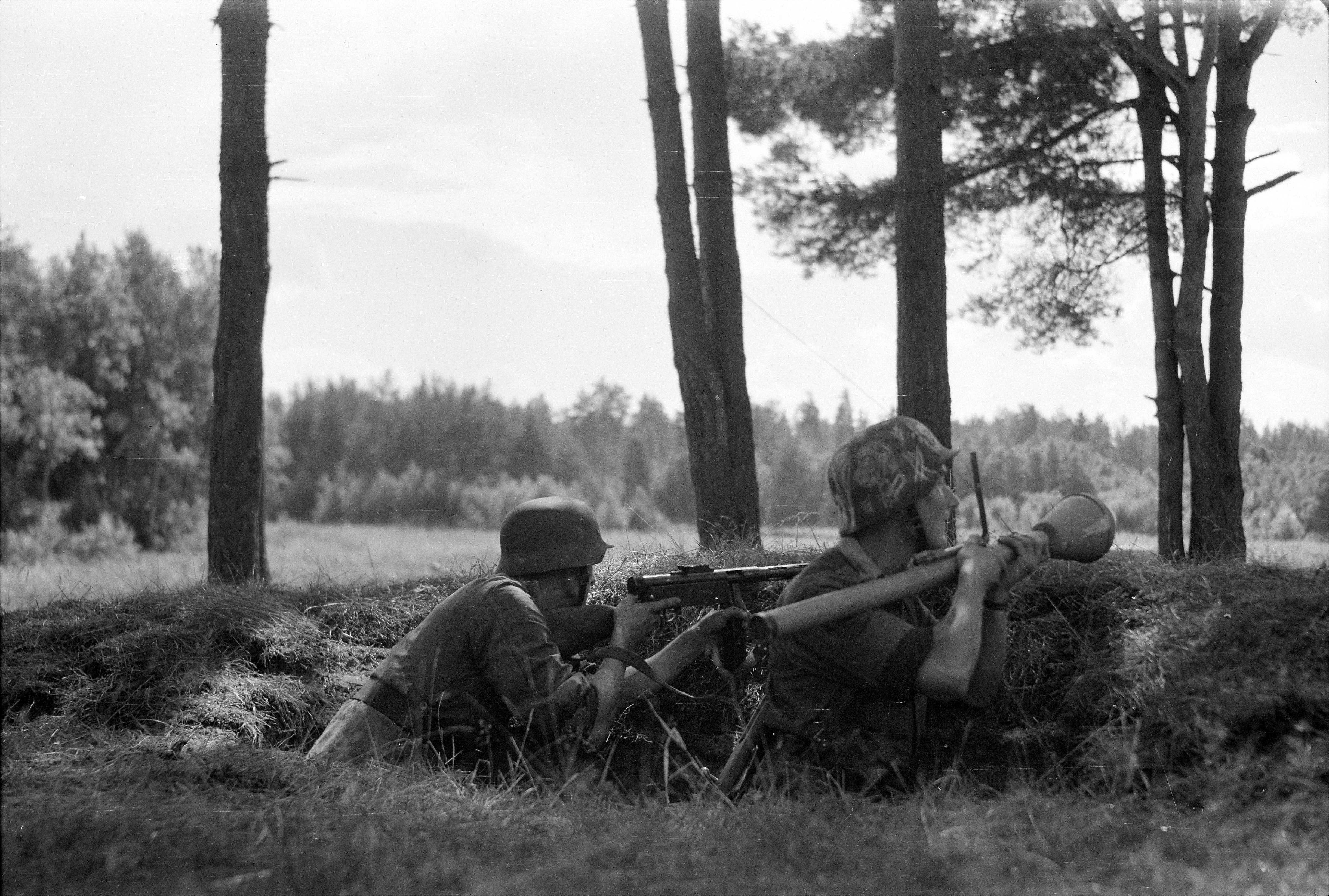 Two finnish soldiers with a shoulder-fired anti-tank missile